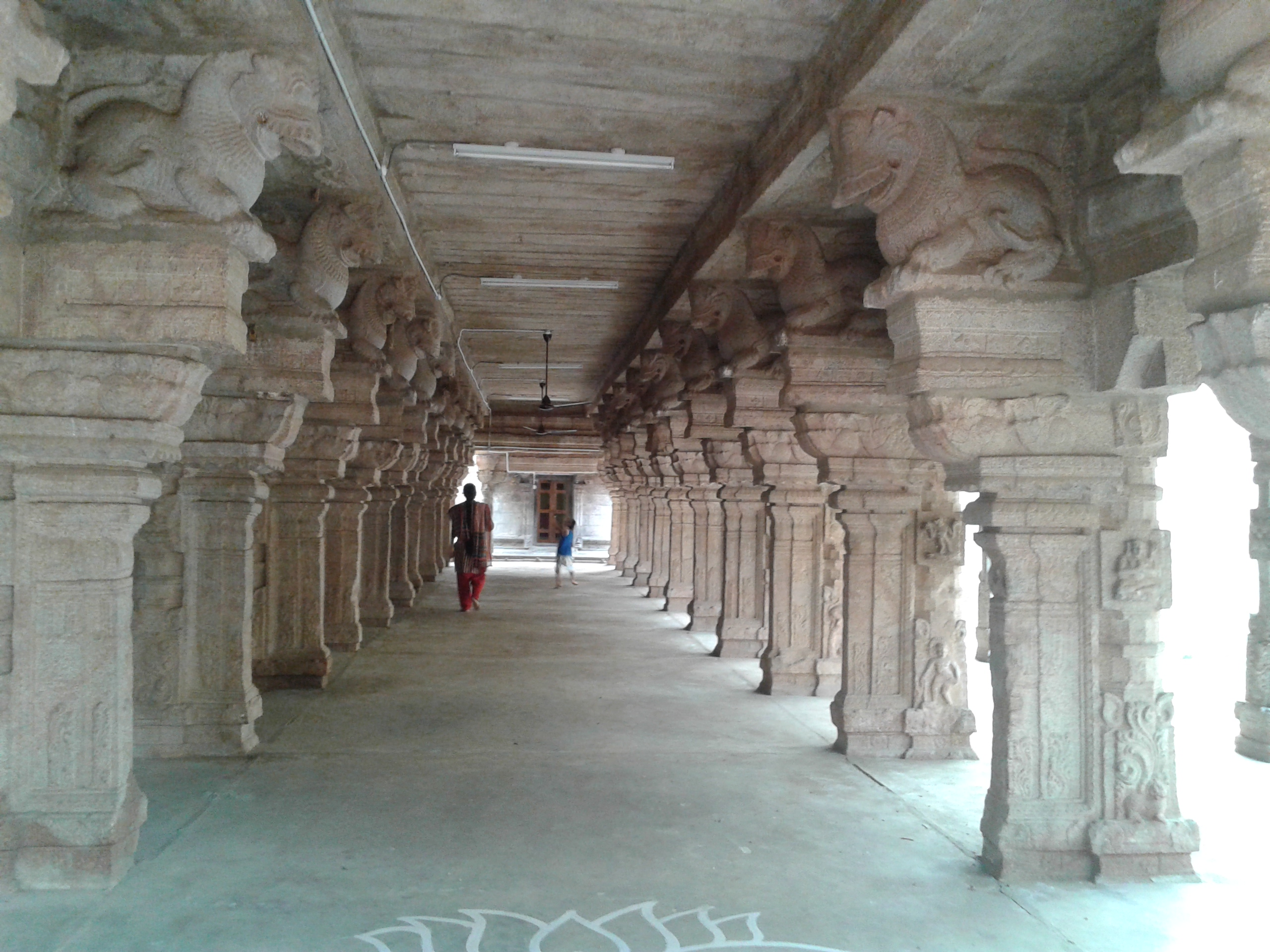 Krishnapuram Venkatachalapathy temple